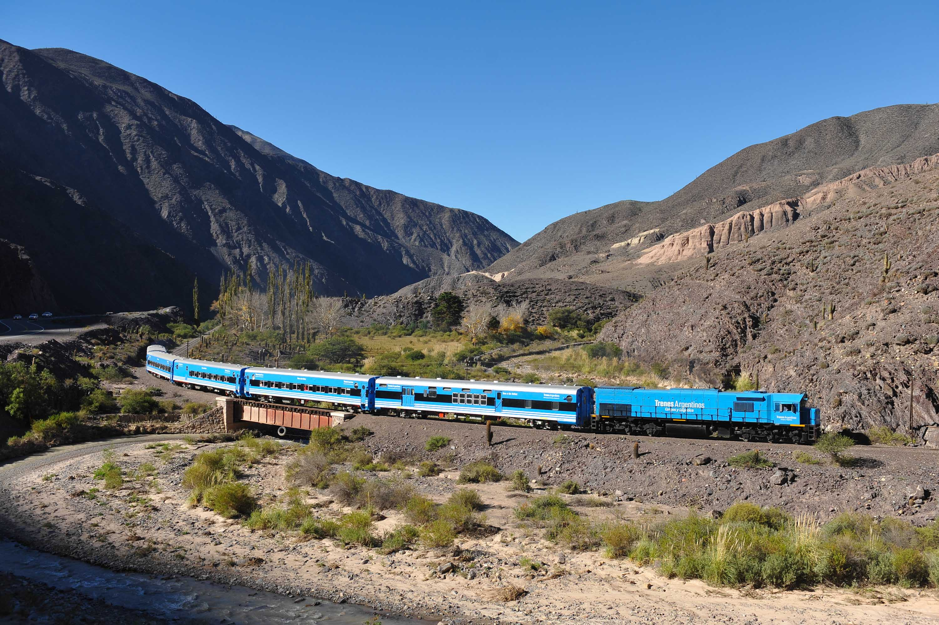 The Tren a las Nubes crossing a small railway bridge.